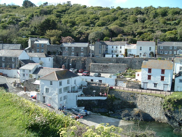 Portloe (St. Gweep) An aerial view of Portloe (or St. Gweep as it is known to the viewers of Wild West).